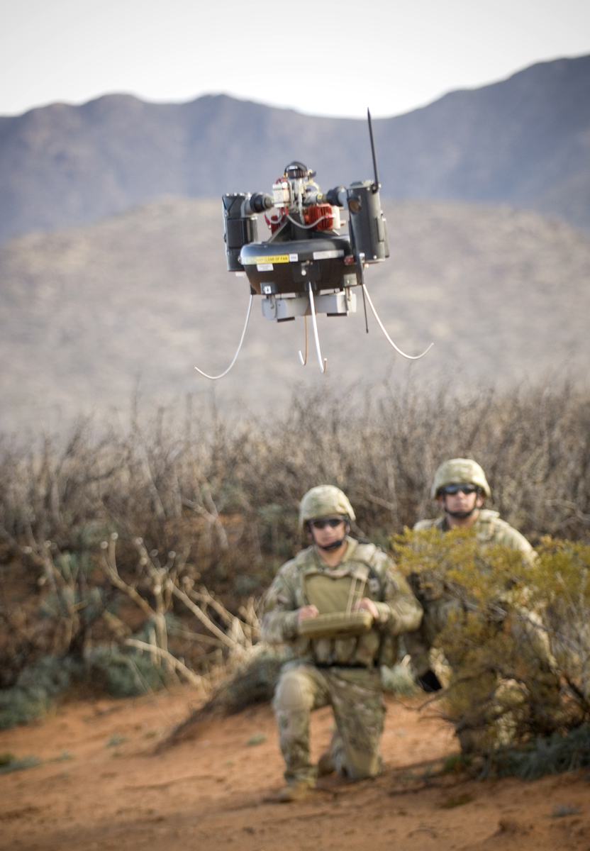 XM156 Class I UAV of the US Army